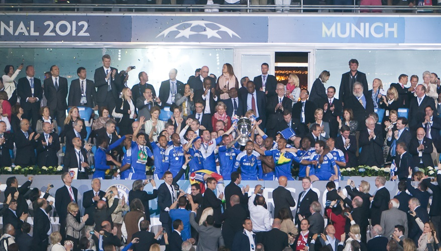 Cropped version from